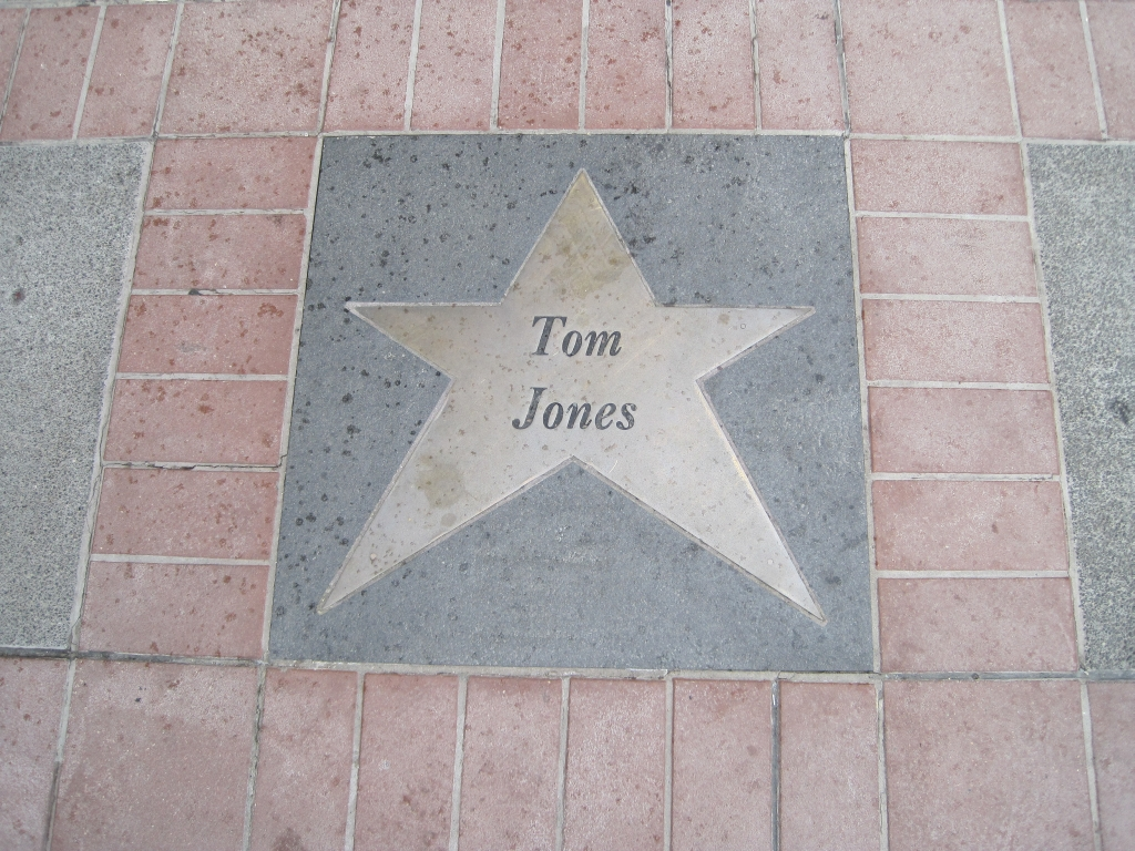 Walk of fame at the Orpheum Theater in Memphis, Tennessee. Tom Jones